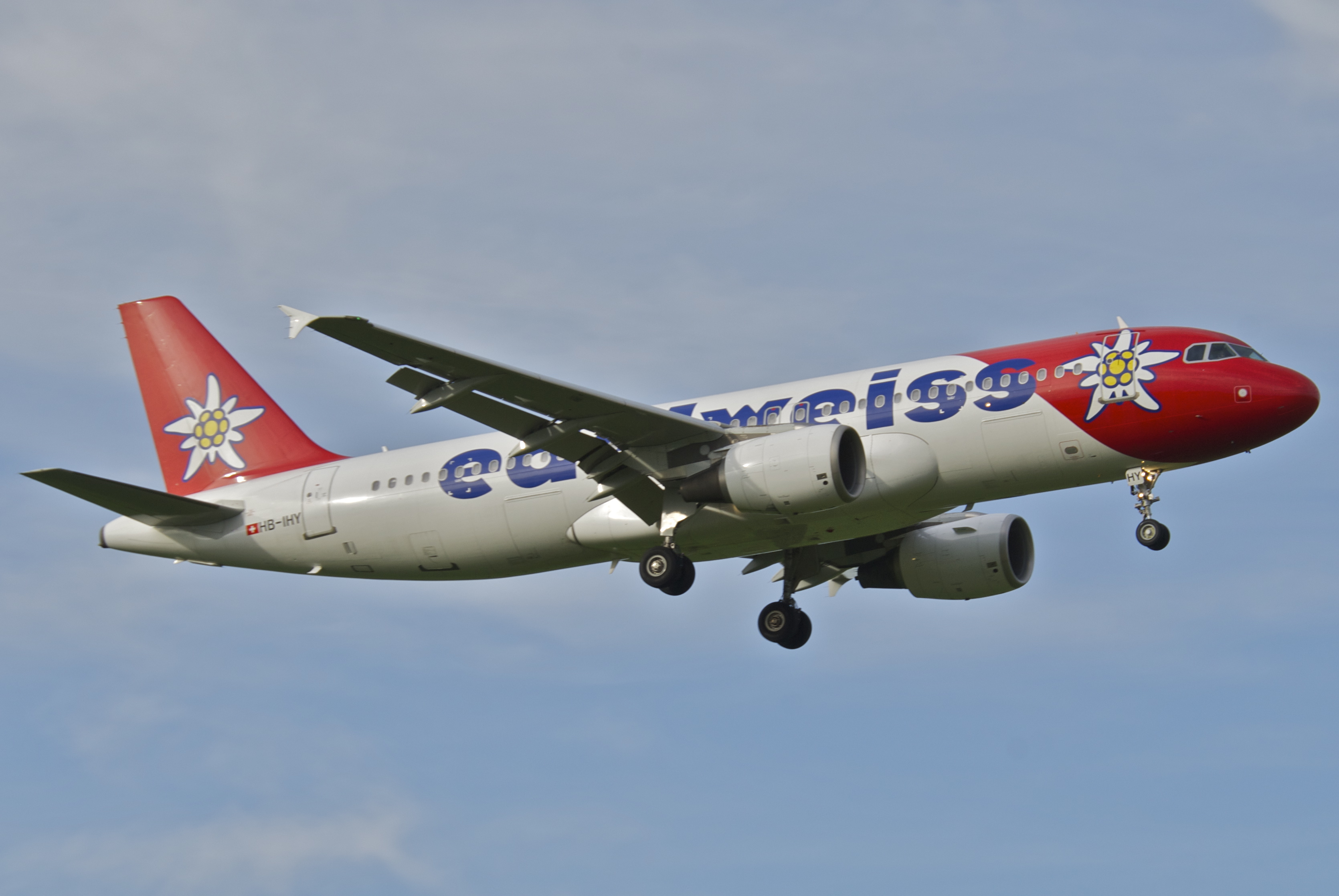 Arriving as WK 102 from Marrakech... First flight: December 17, 1998 and delivered to EDW on February 11, 1999...(c/n 947)